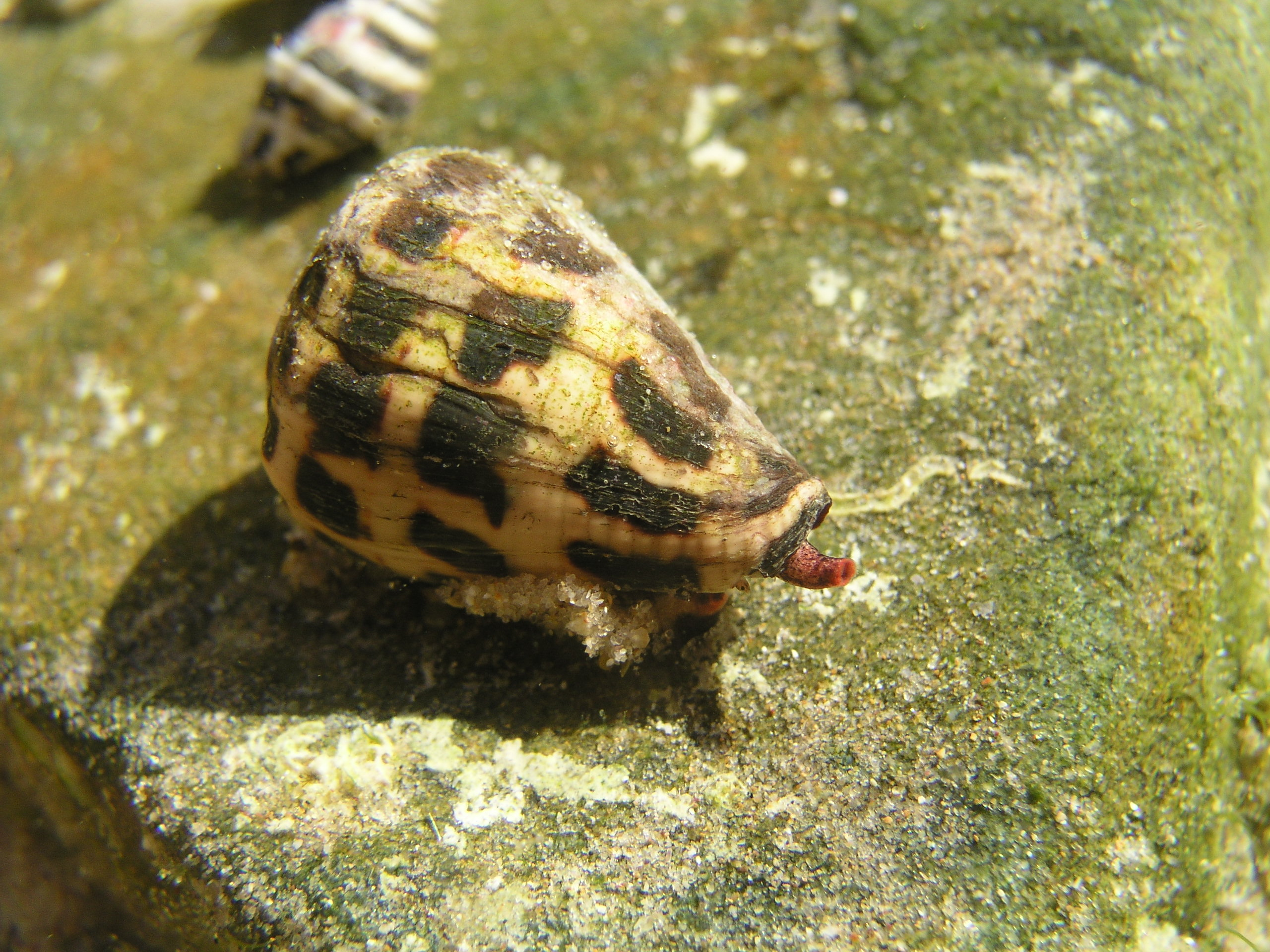 Diggers Camp molluscs.